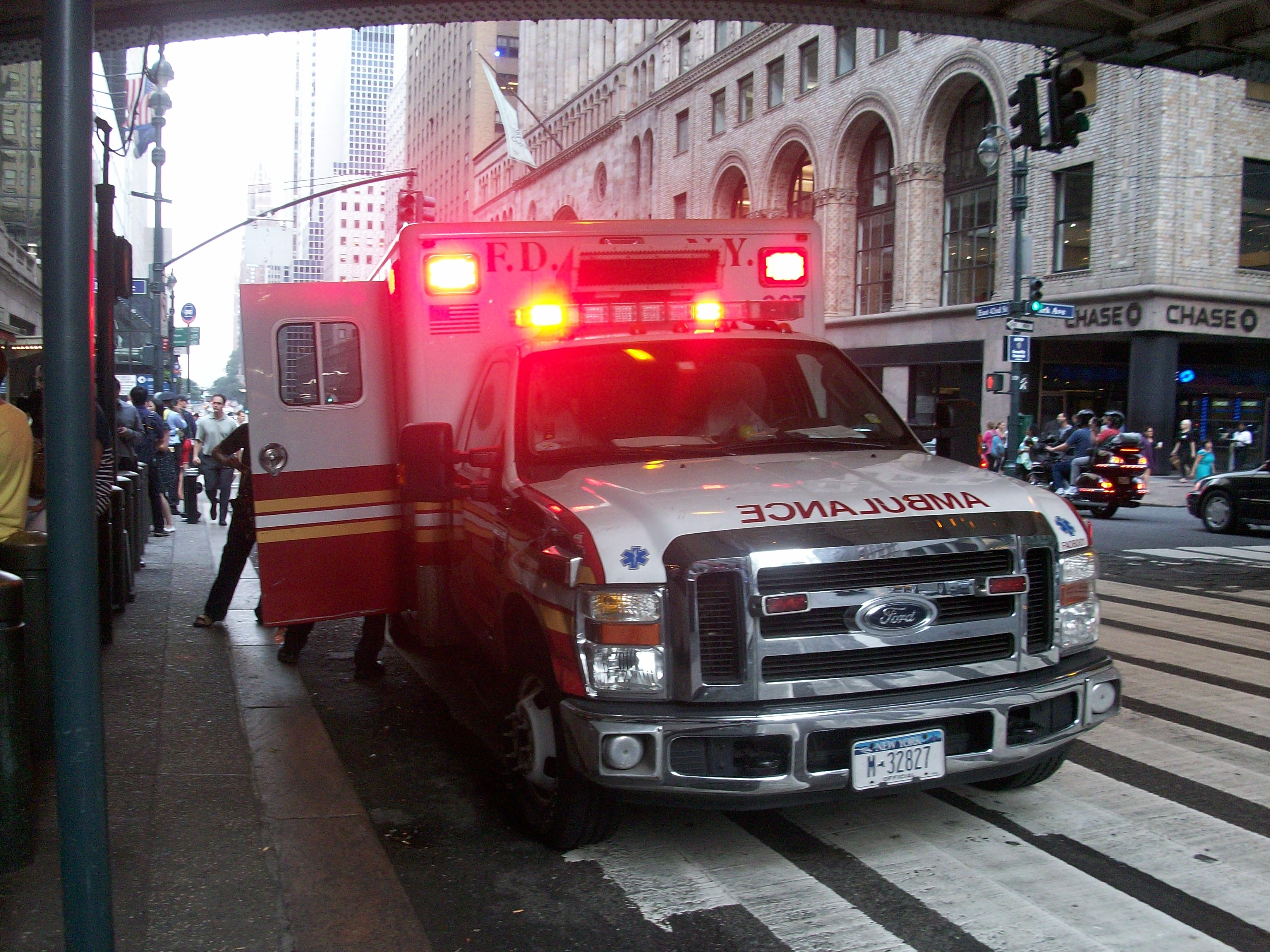 FDNY Ambulance